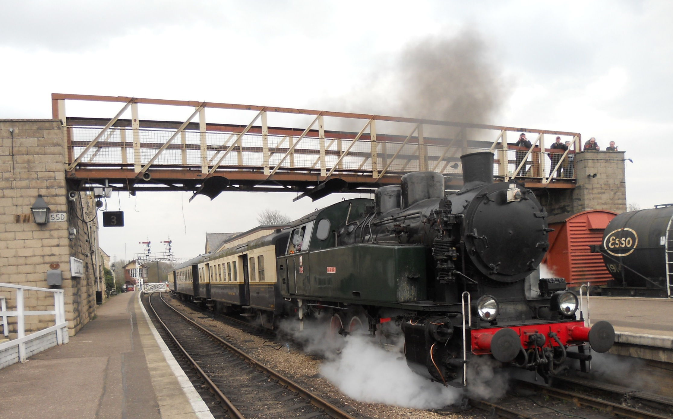 Polish 0-8-0T Class Slask No. Tkp 5485 departs Wansford with a train to Yarwell.